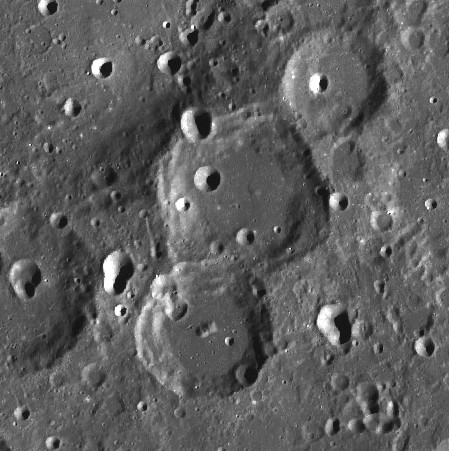 LROC. Razumov at center, Petropavlovskiy bottom center, Landau at upper left